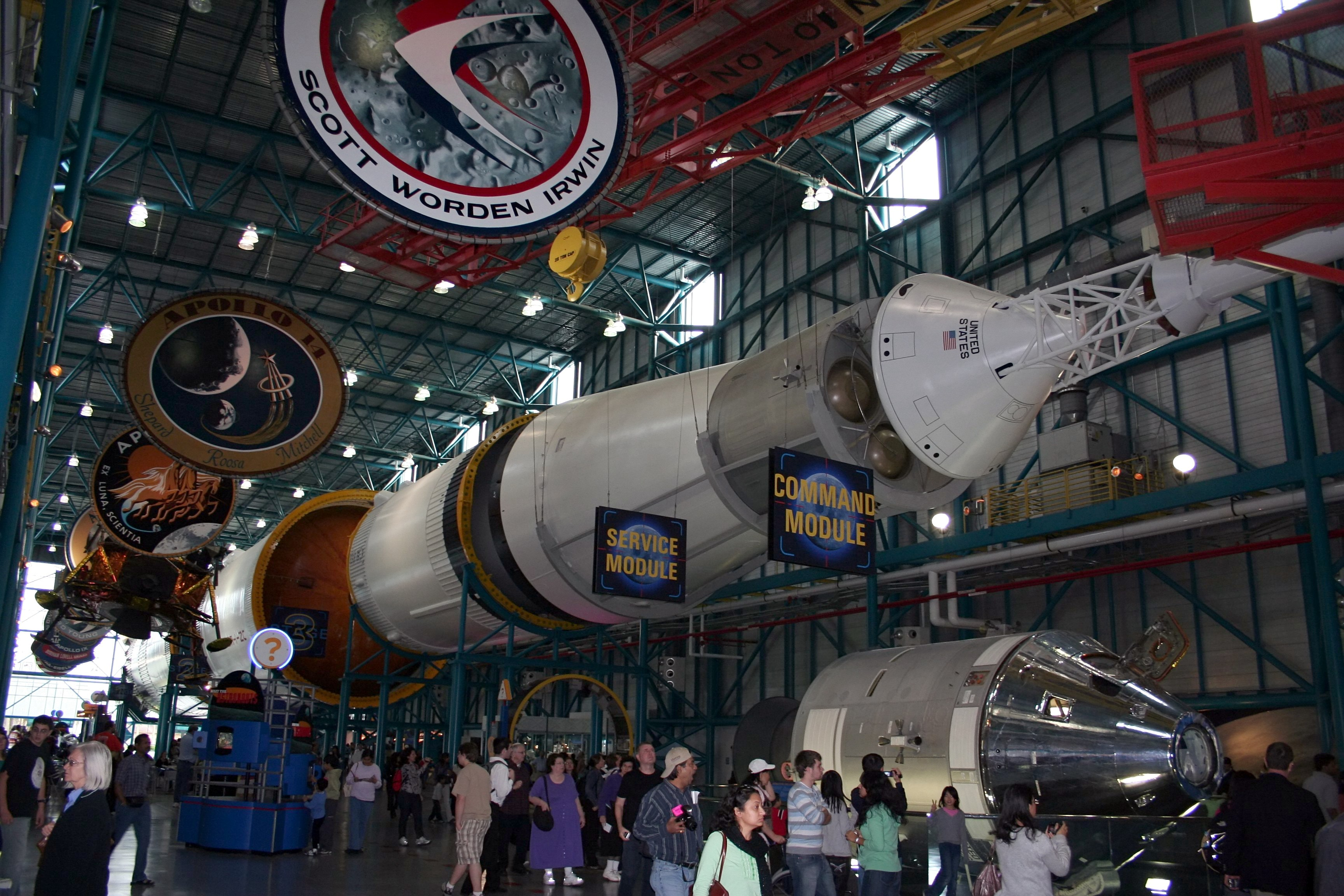 Restored Saturn V at the Saturn V Center at Florida's Kennedy Space Center